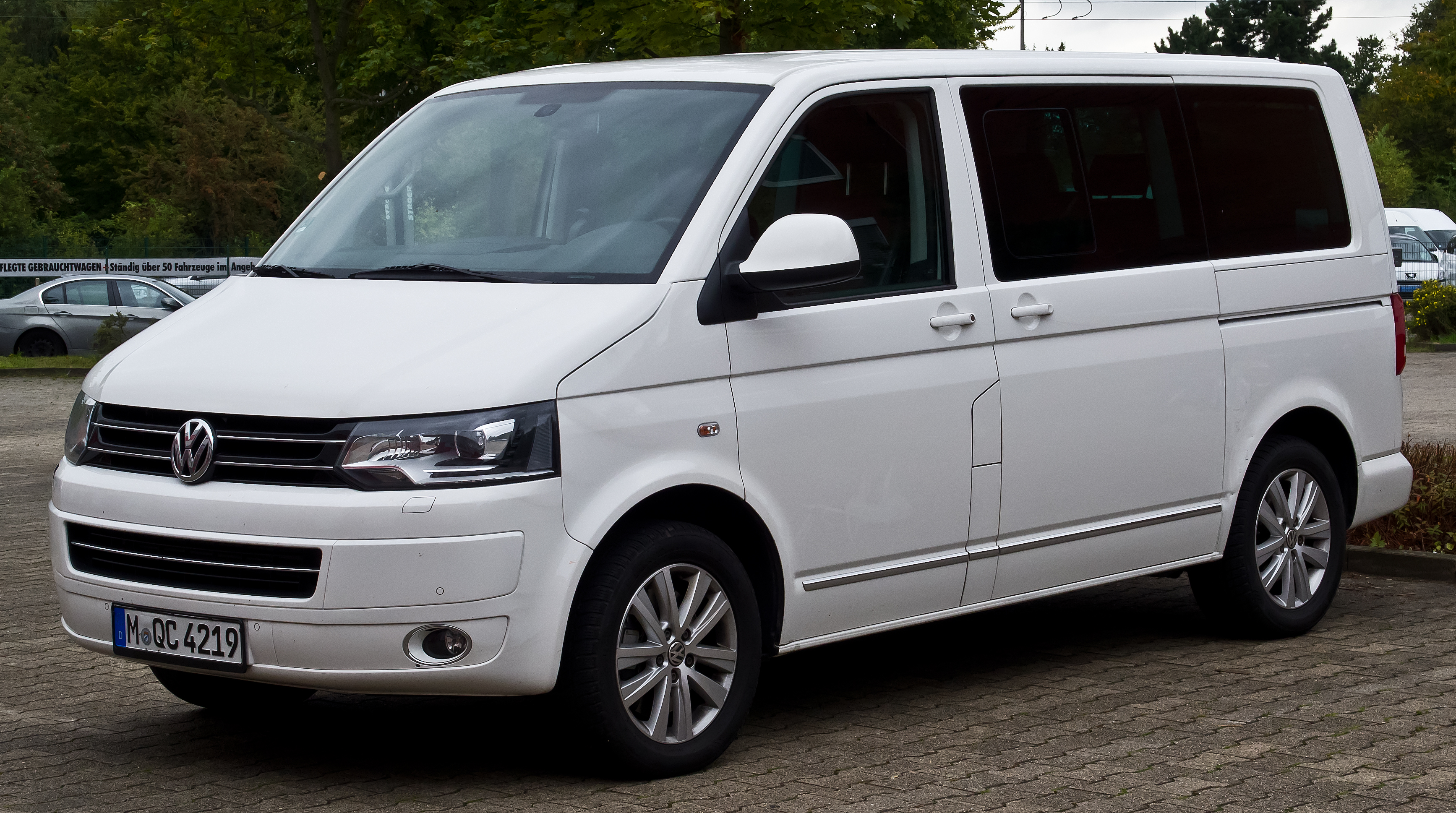 VW Multivan Business (T5, Facelift)